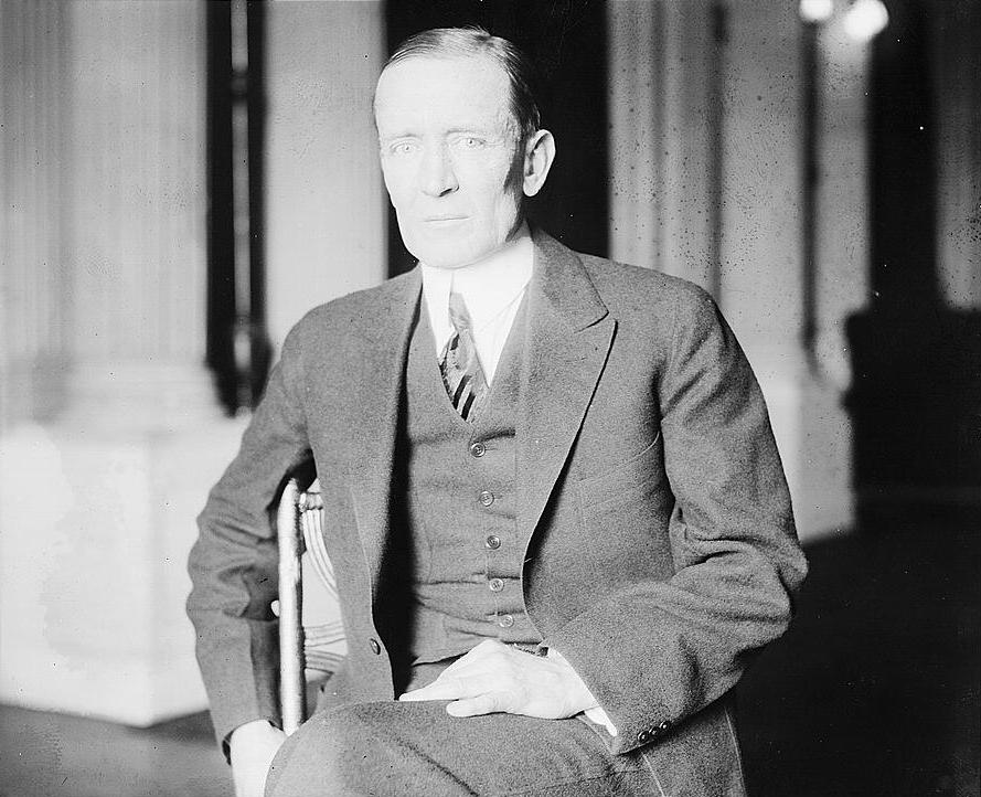 Gov. Thomas Riggs of Alaska in Washington as a delegate to the National Conference of Community Organizations.